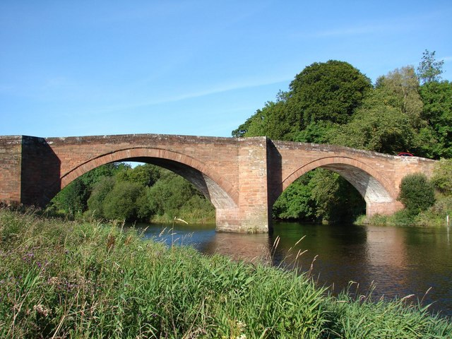 Two-arched stone bridge carrying the A702 road over the River Nith in Penpont parish, just west of Thornhill, Dumfriesshire